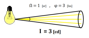 The amount of luminous intensity in a cone to the solid angle of one steradian is equal to the luminous flux of the cone.